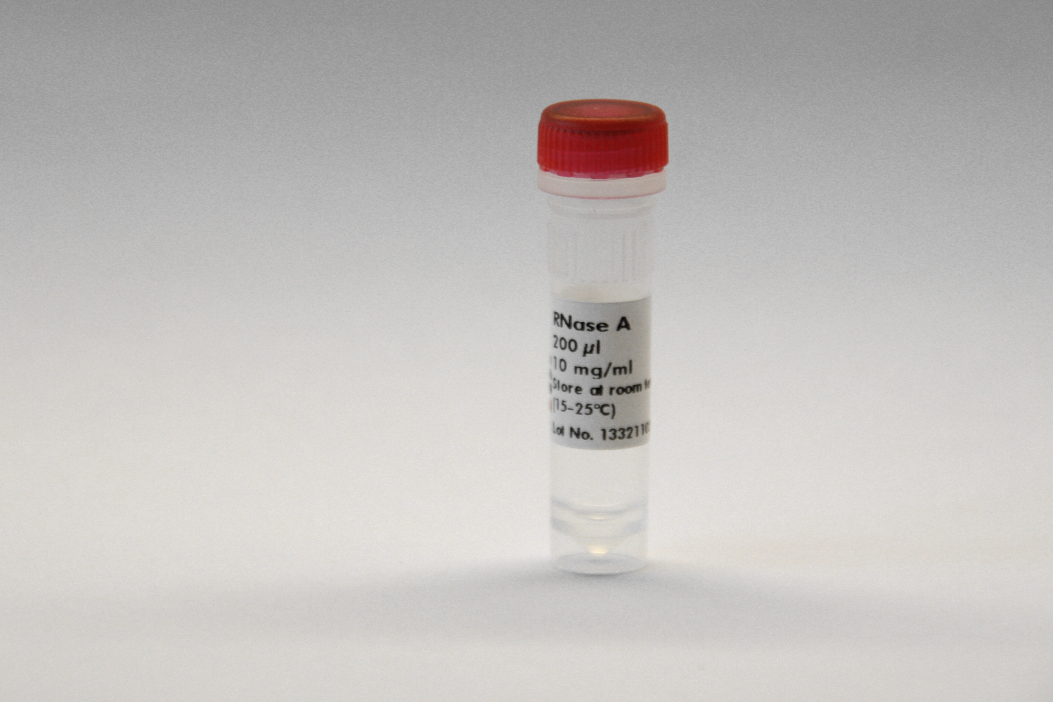 A 2 ml vial of ribonuclease A (RNase A) for use in molecular biology to degrade ribonucleic acid (RNA).